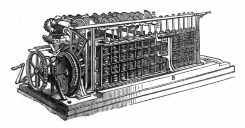 Drawing of the Difference Engine No. 1 designed by Pehr Georg Scheutz and his Sohn Edvard Scheutz from 1843 onward. The machine was completed in 1853 conjunction with Johan Wilhelm Bergström.